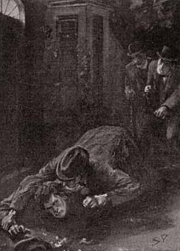 Sherlock Holmes in "The Adventure of the Six Napoleons."